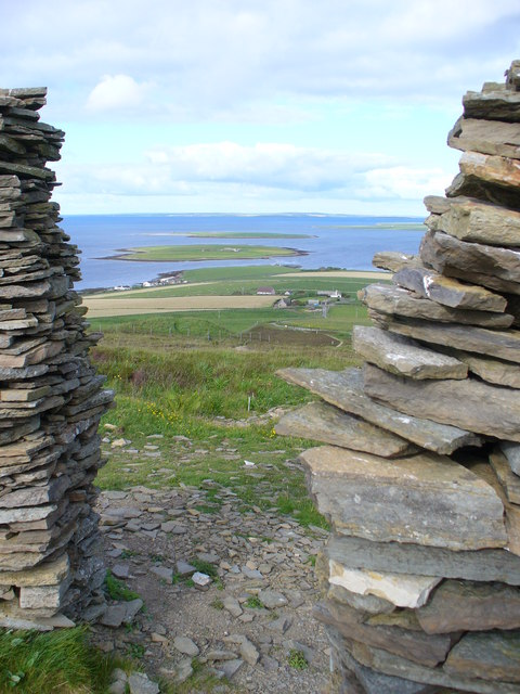 "Stone Men" on Cuween Hill Several of these have been built on the mound above the chambered tomb. The local flat stones on the hillside are ideal for building these local landmarks, some of which are about 6 feet high. In the distance are the islands Holm of Grimbister and Damsay.